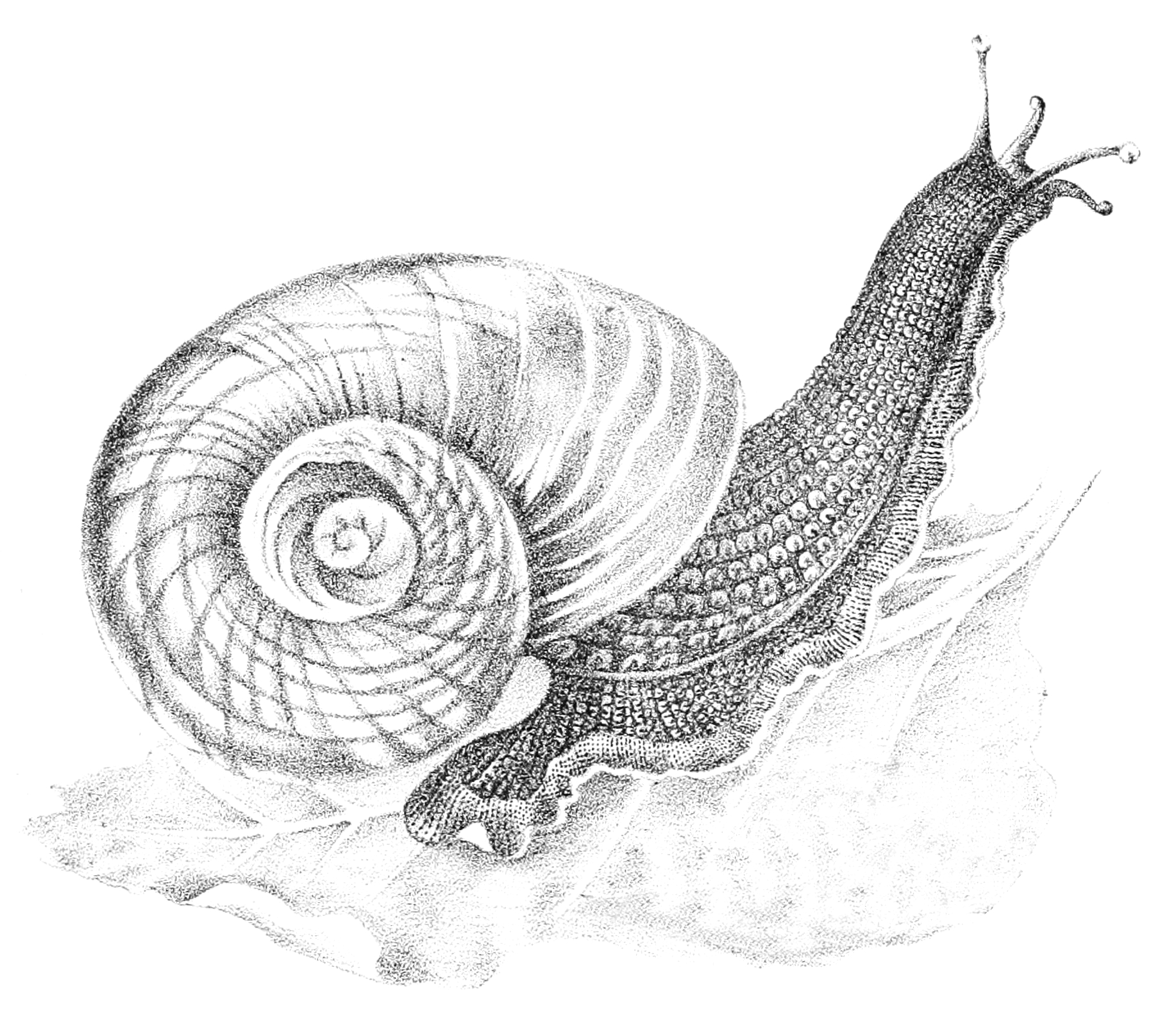 Drawing of Paryphanta busbyi.